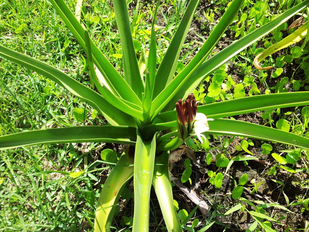 Crinum mauritianum - endemic Mauritian plant